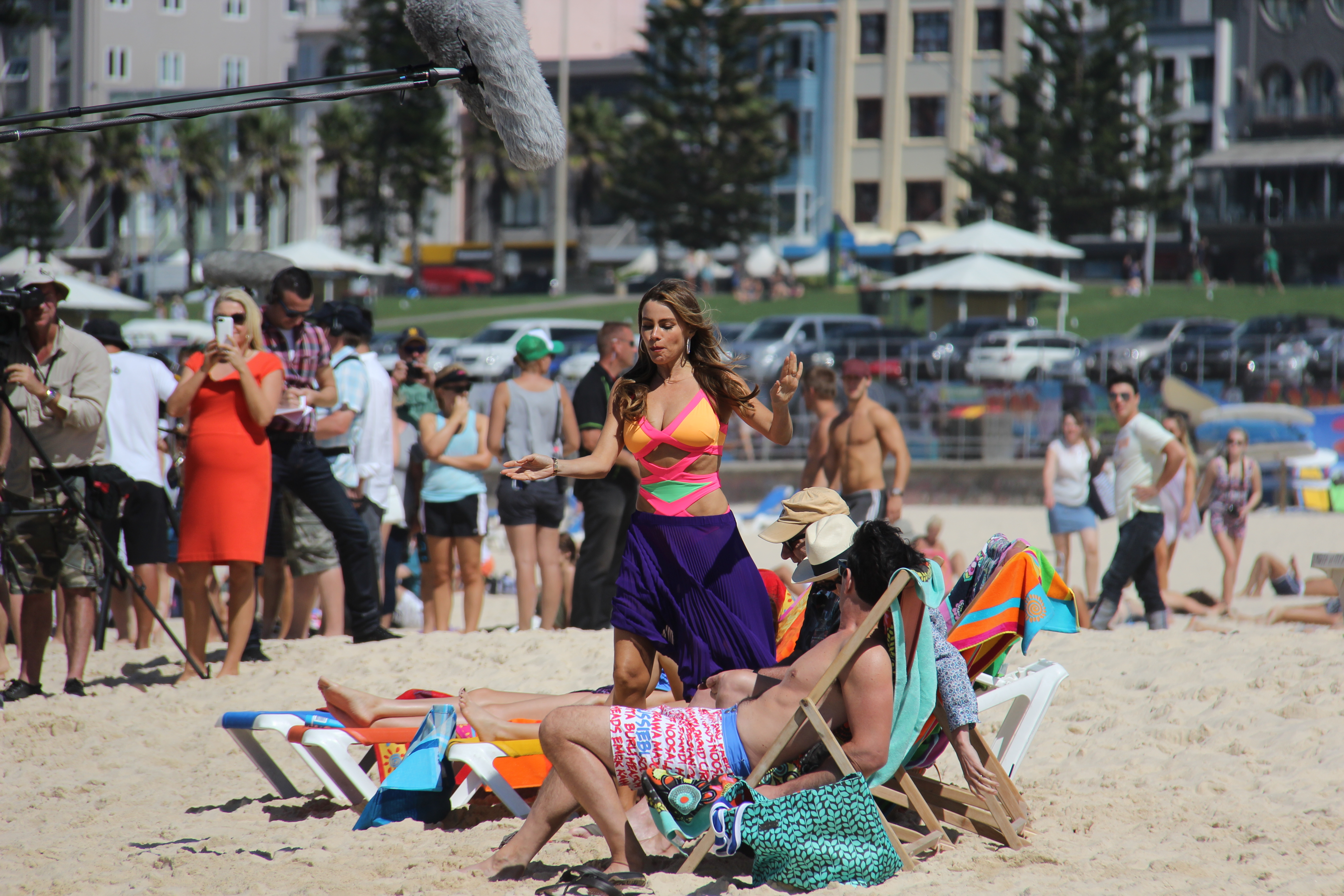 Modern Family filming on Bondi Beach, Sydney, Australia